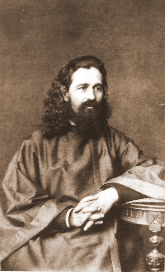 Archpriest Pavlo Leontievich Grigorovich